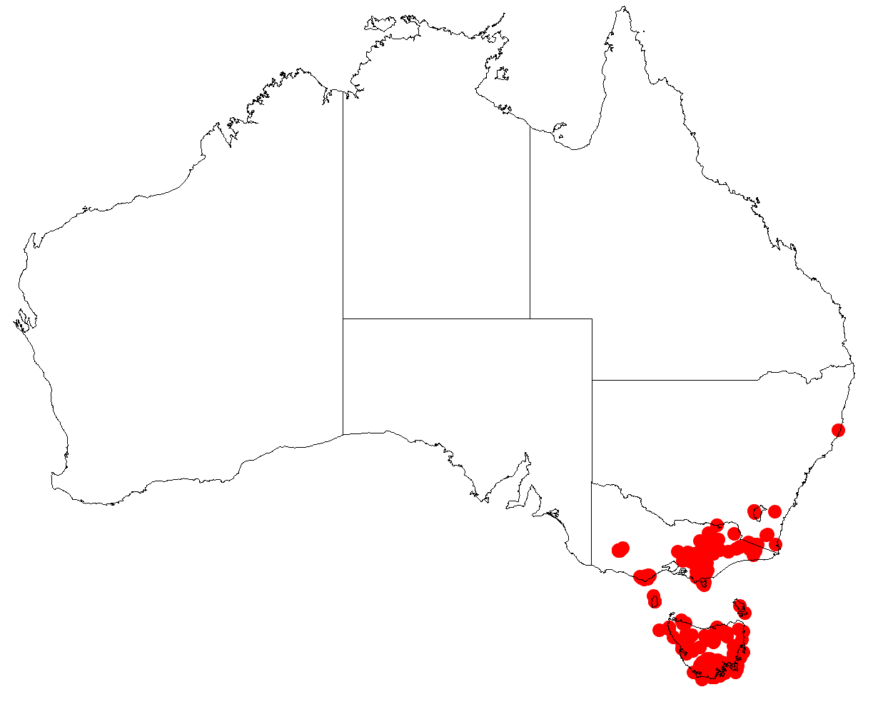 Billardiera longiflora occurrence data from Australasian Virtual Herbarium downloaded 5 July 2018